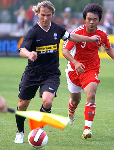 July 2007. FC Juventus summer training ground, Italy. Pavel Nedvěd.